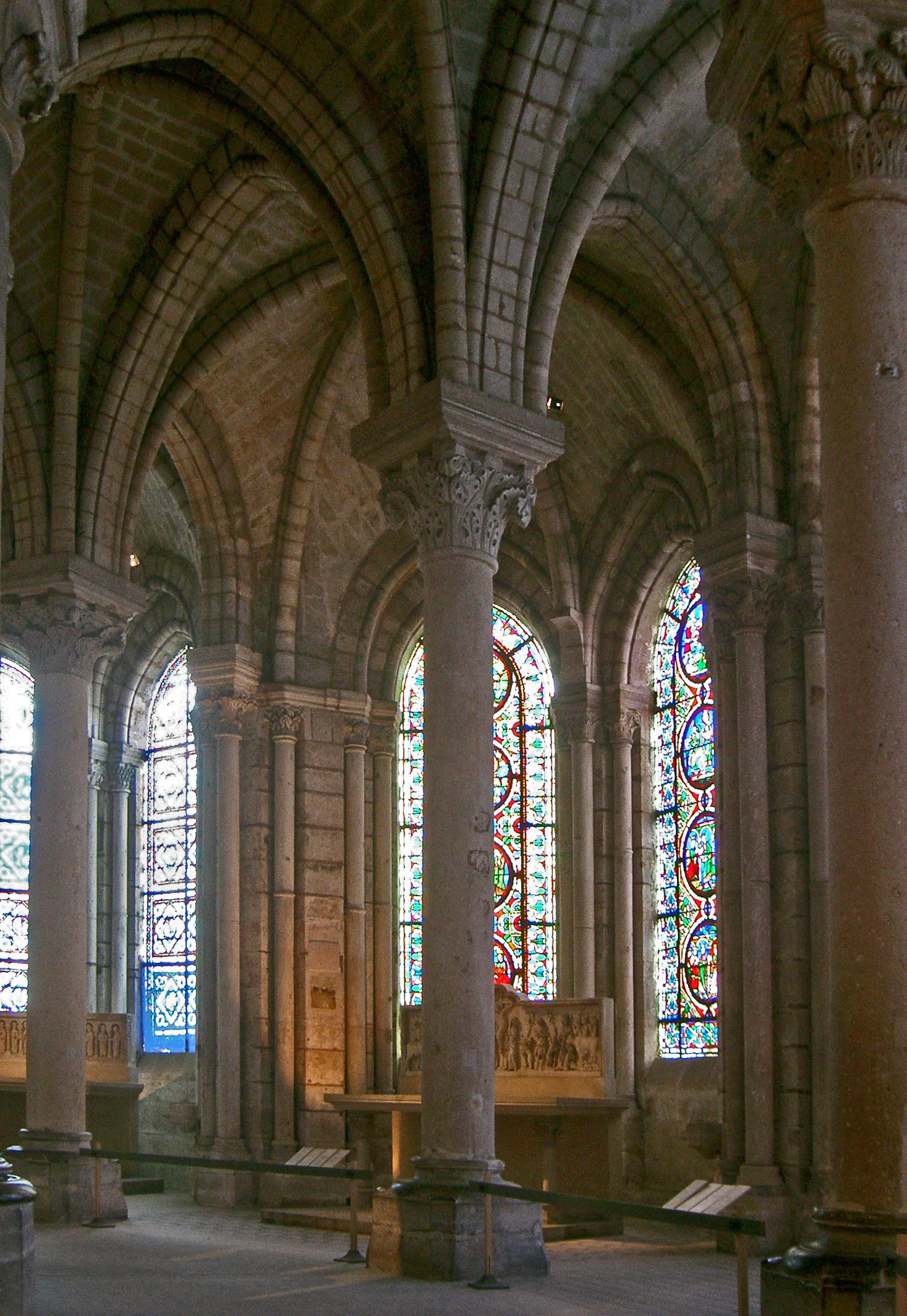 The Basilica of Saint Denis, northern Paris. The ambulatory designed by Abbott Suger, early 12th-century, possibly the earliest building in the Gothic Style.